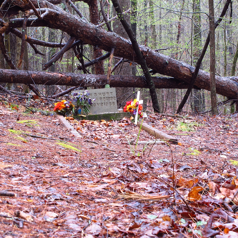 Grave of Mississippi John Hurt.